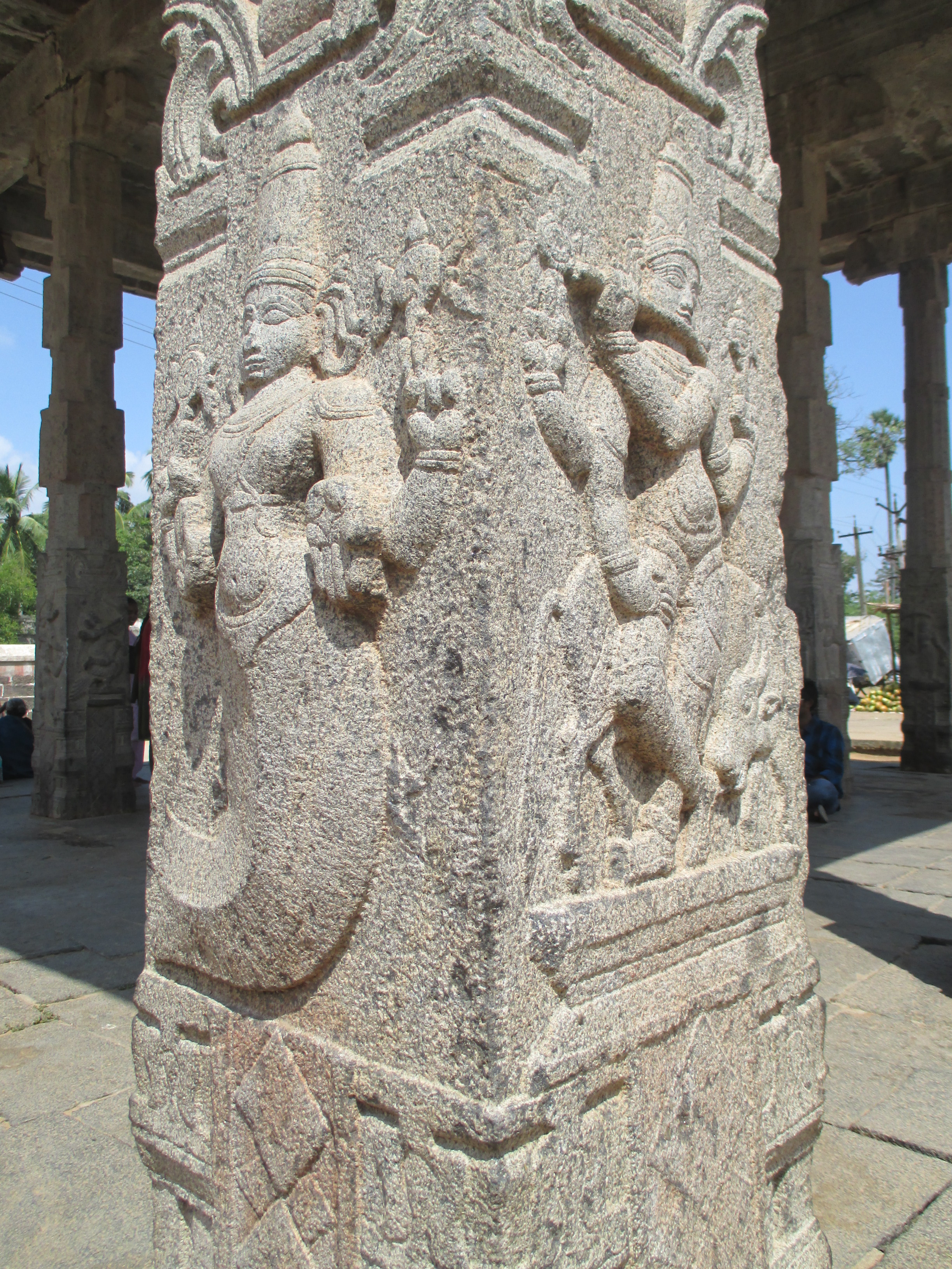 Nithyakalyana Perumal temple